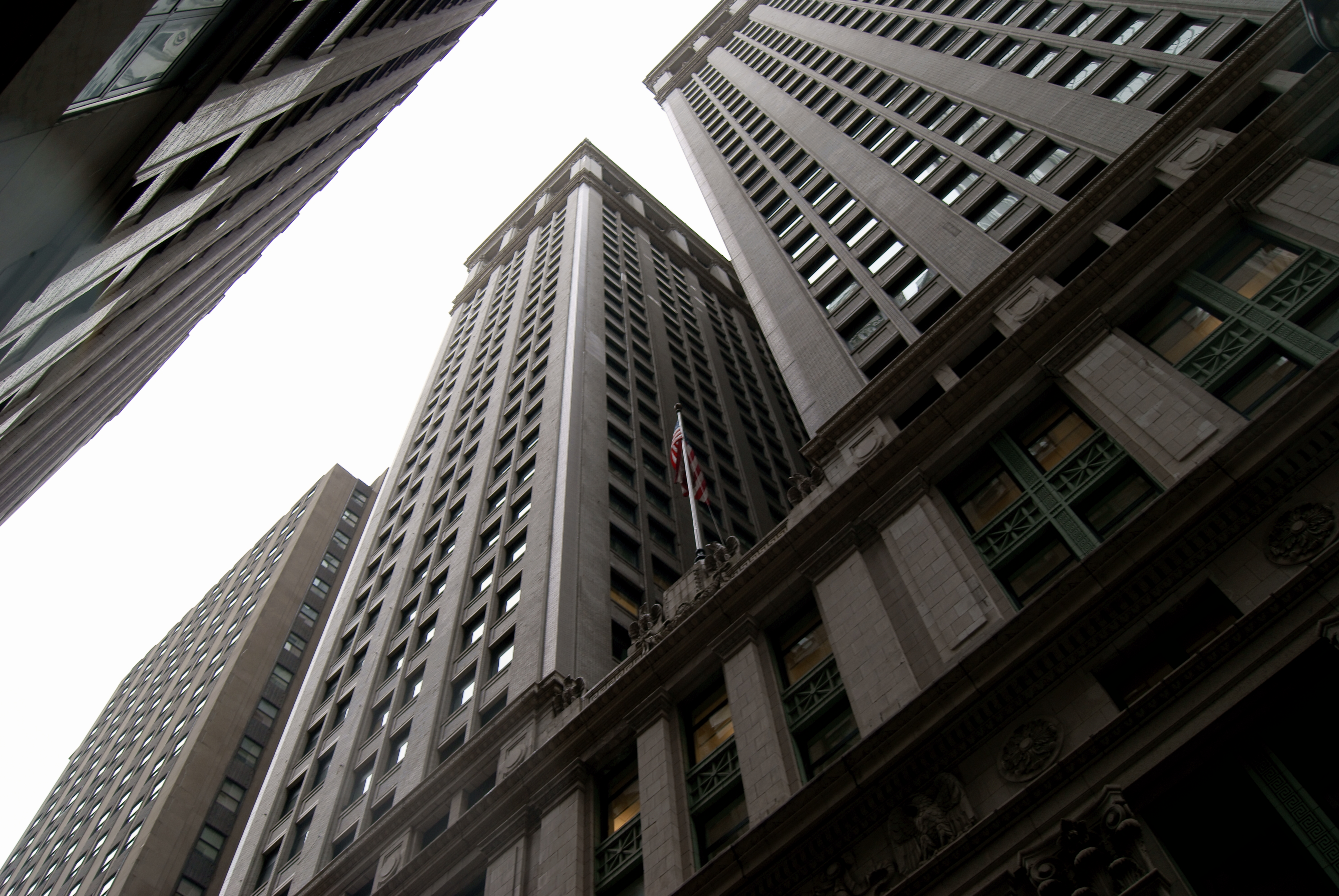 The Equitable Building in New York as viewed from the street level